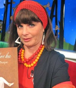 Mariana Briski-actriz argentina